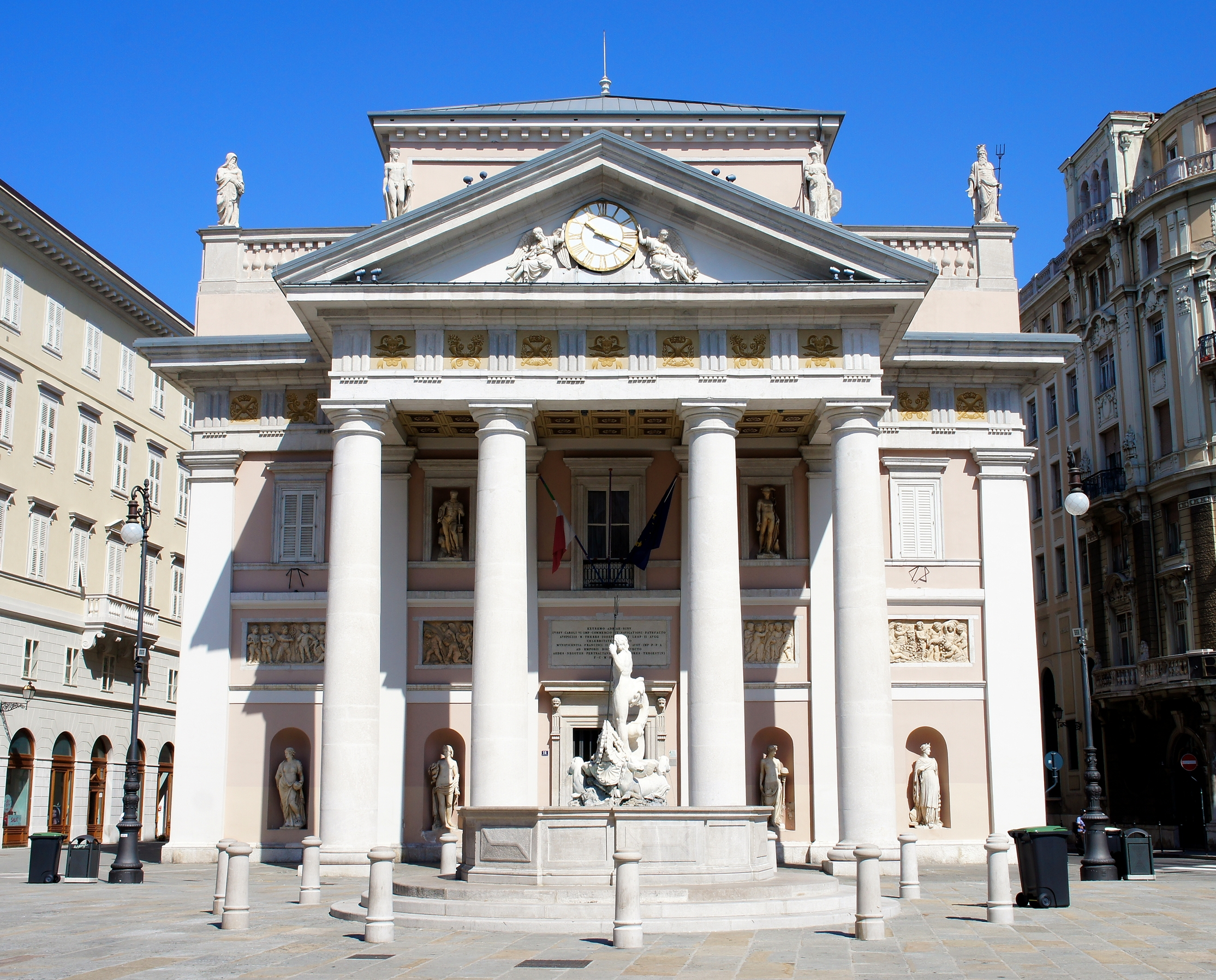 The old Stock Exchange Palace in Trieste (Friuli-Venezia Giulia, Italy).